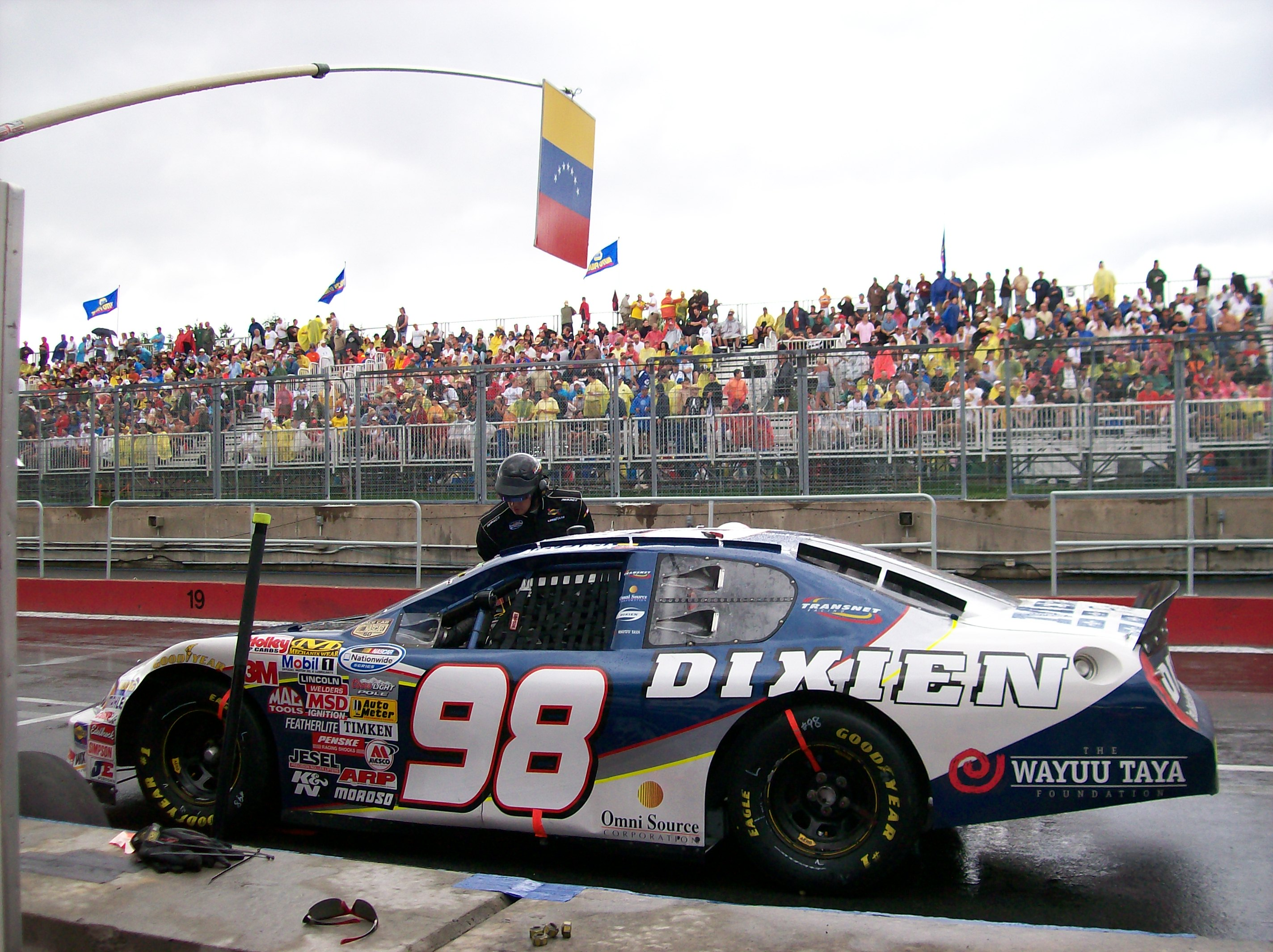 Transnet Racing 98 during pit stop in Montreal